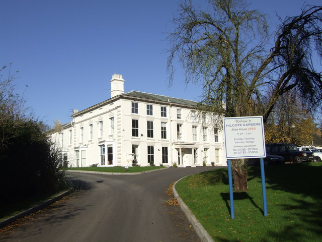 Hilcote Hall Hilcote Hall became a Nursing Home in July 1986